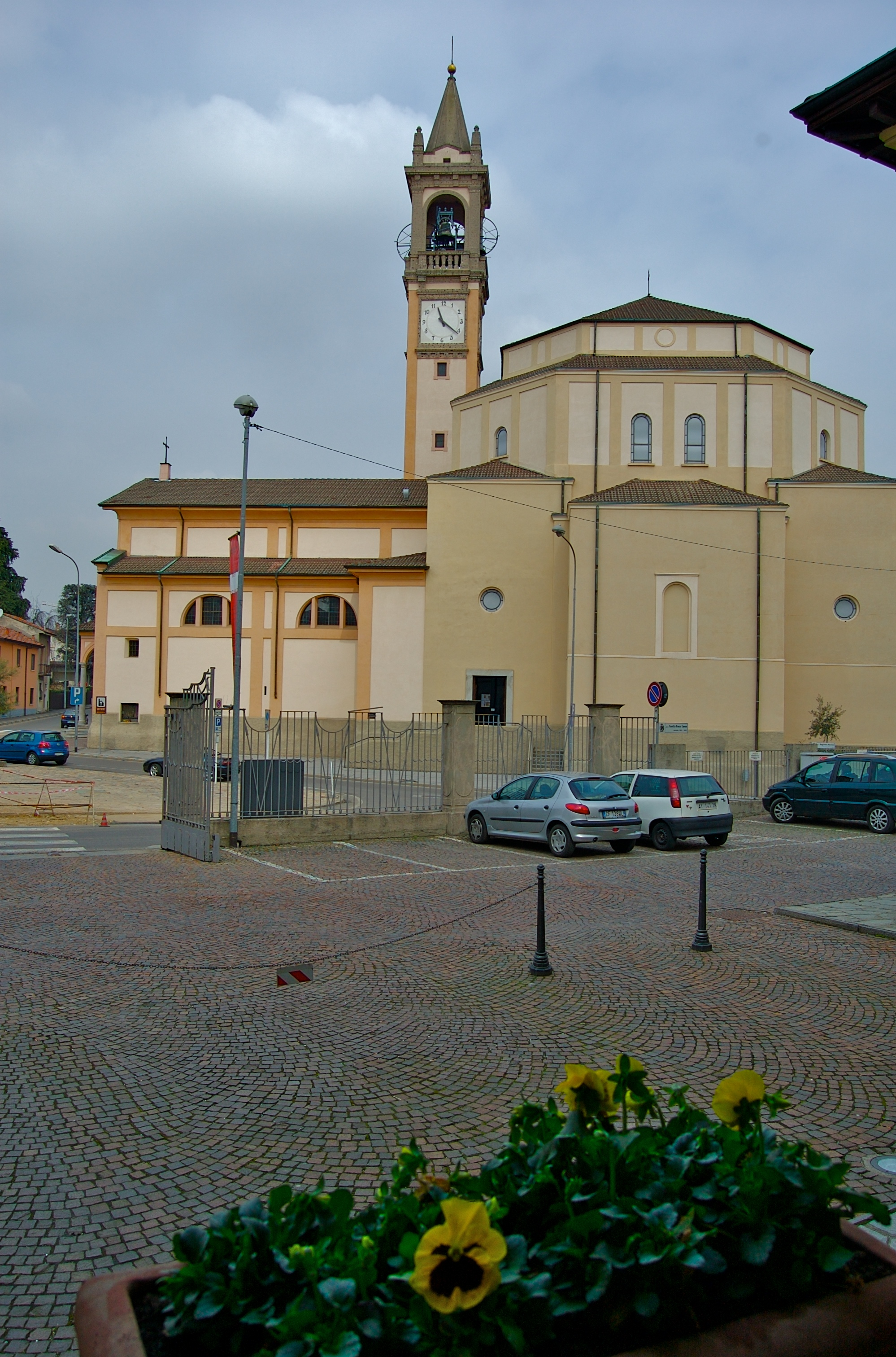 Barlassina, view of St Julius' Parish Church from south.